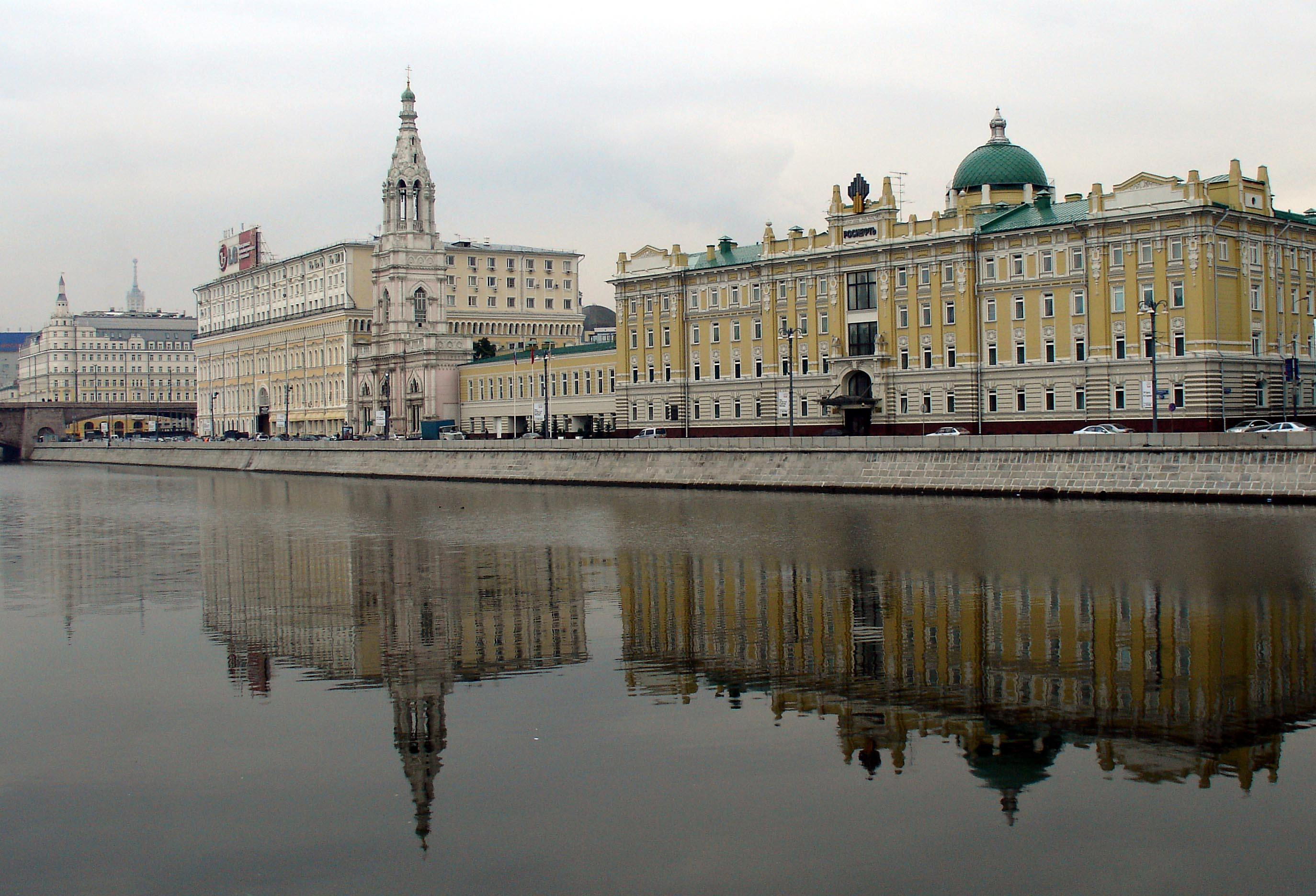 View of Sofiyskaya Embankment from across Moskva River. Balchug Street (far left), Belltower of St. Sophia (middle), Rosneft Headquarters. The latter was built in 1890s as free public housing.